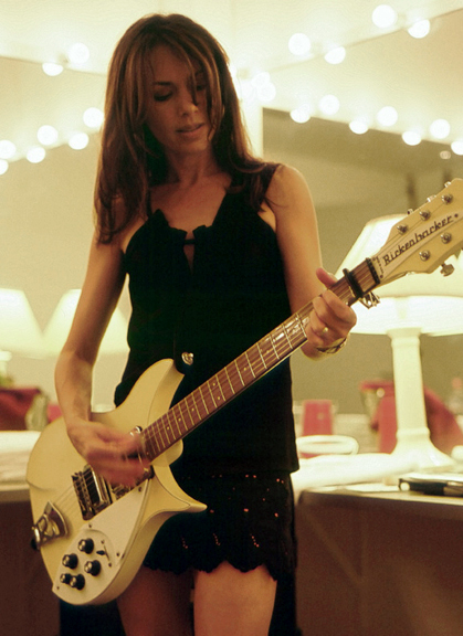 Susanna Hoffs of the Bangles. Taken backstage at a show in Australia in 2008.